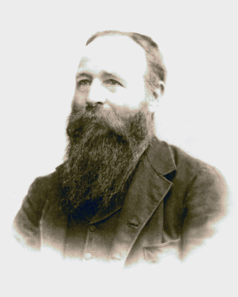 Australian author Frank Atha Westbury c. 1885